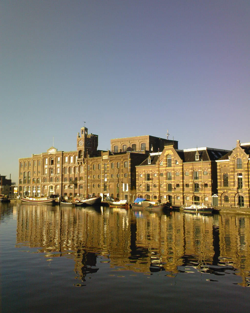 Some warehouses at the Zaan river, Wormer, The Netherlands.